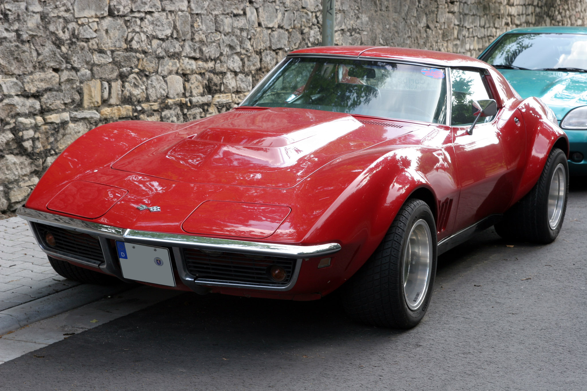 Chevrolet Corvette C3, located in Gernsheim (Germany)